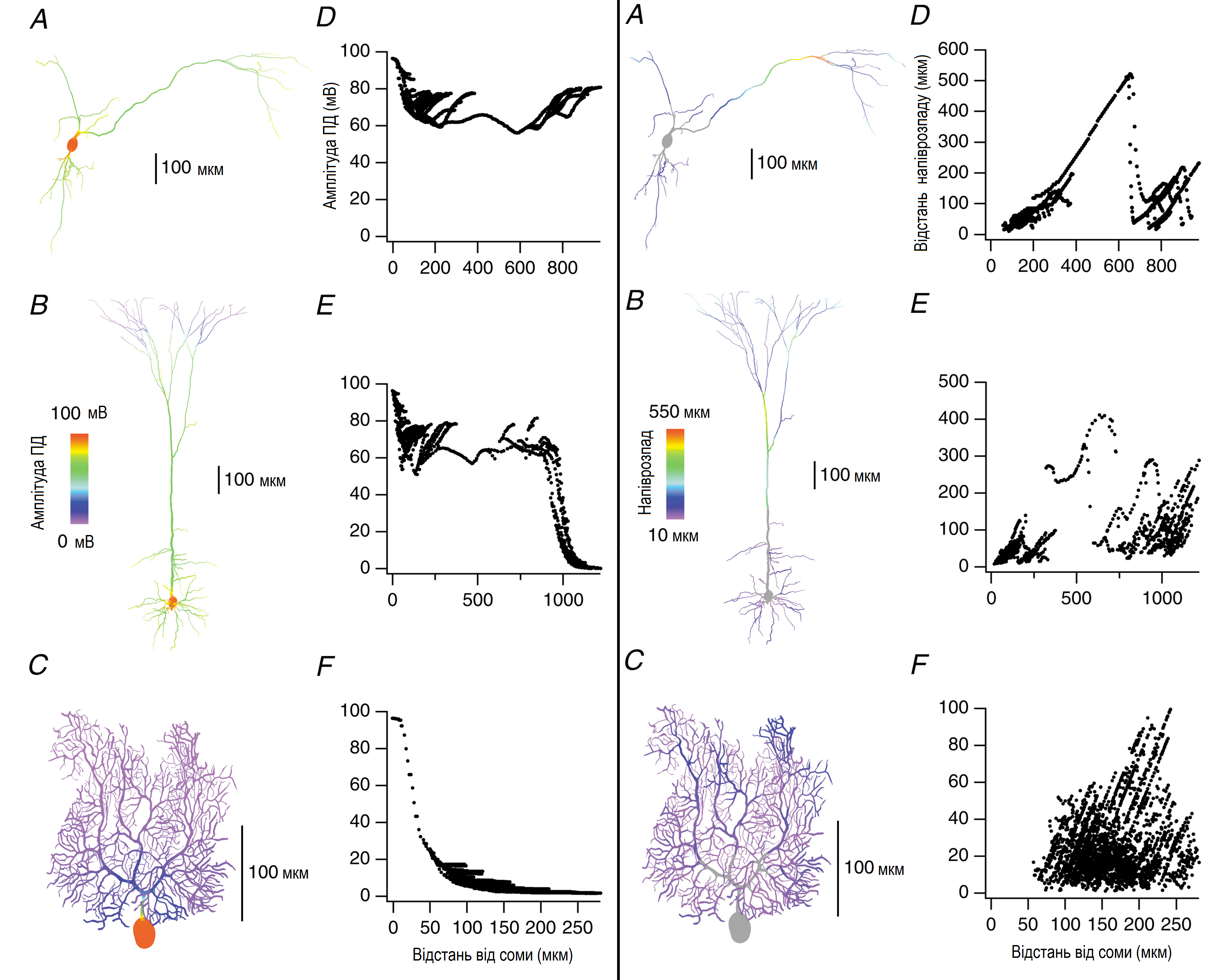 Adapted & modified from the "New biophysical methods for the characterization of signal transfer in neurons" - PhD thesis by Arnd Roth (2004)